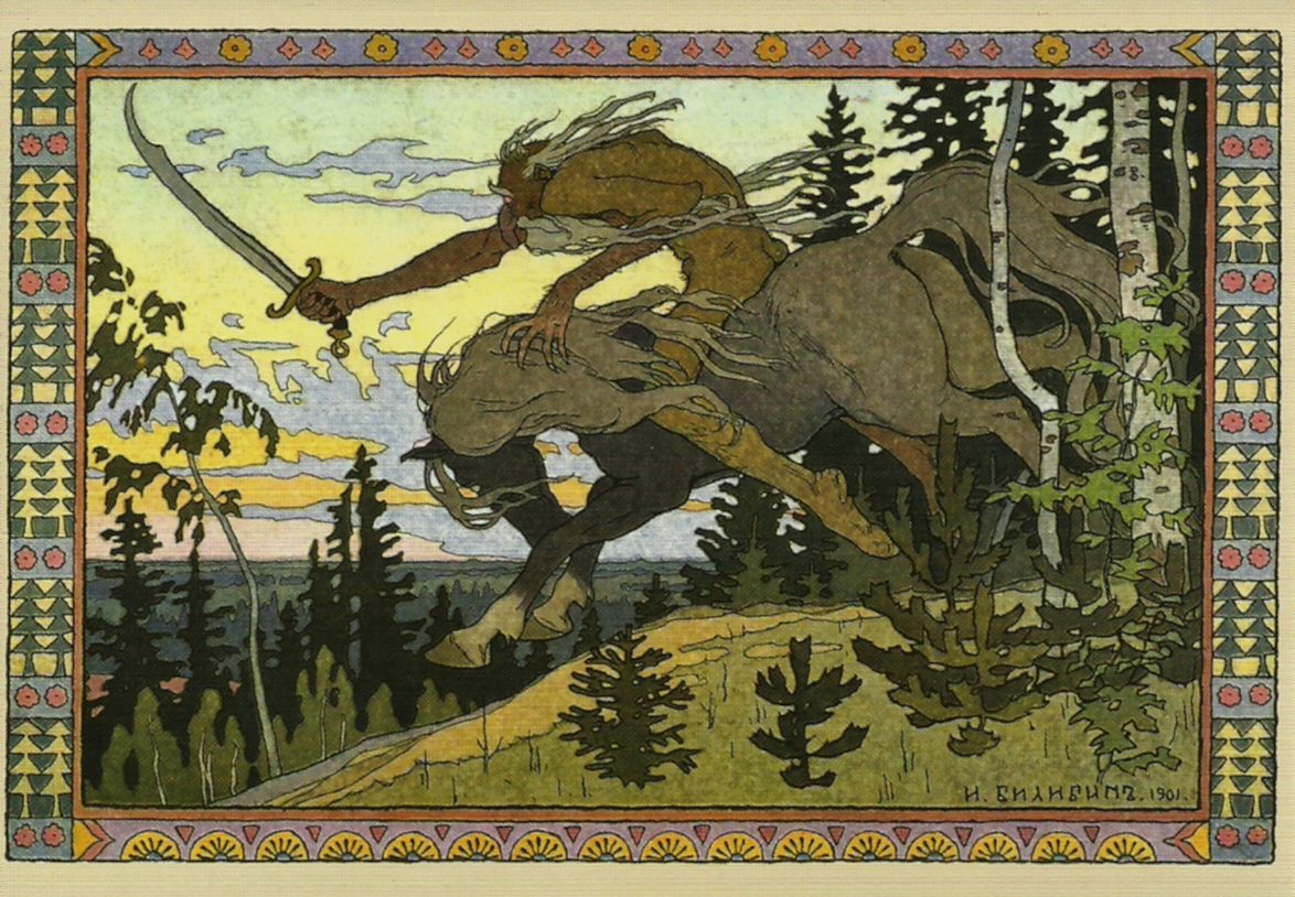 Koshchei the Deathless. An illustration to the fairy tale Mariya Morevna. Published in Bilibin’s Skazki: Marʹya Morevna. St. Petersburg: Expeditsii Zagotovleniia Gosudarstvennykh Bumag, 1903.